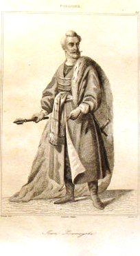 Jan Karol Chodkiewicz